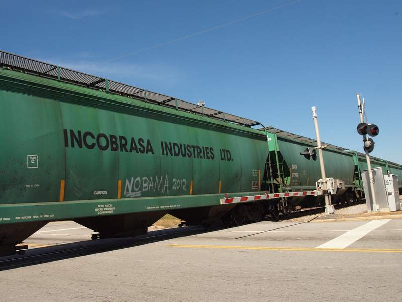 Freight train in North-east Columbia, SC, Oct. 2012.